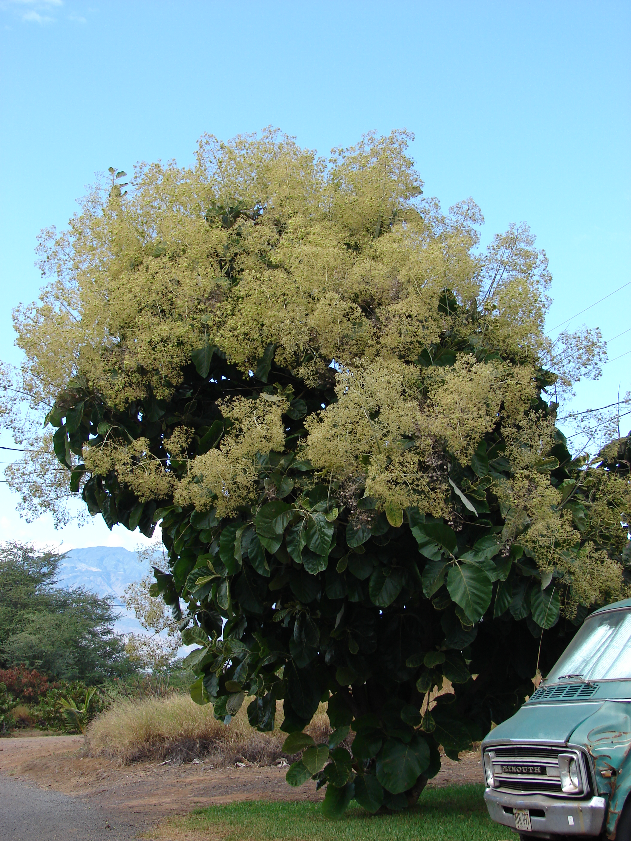 Tectona grandis (fruiting habit). Location: Maui, Kihei